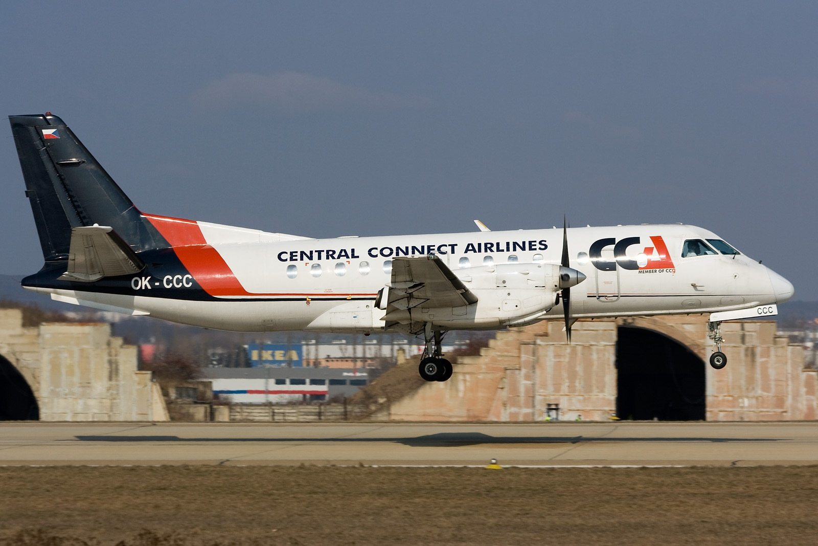 Saab 340 of Central Connect Airlines (registration OK-CCC) at Brno-Turany International Airport.